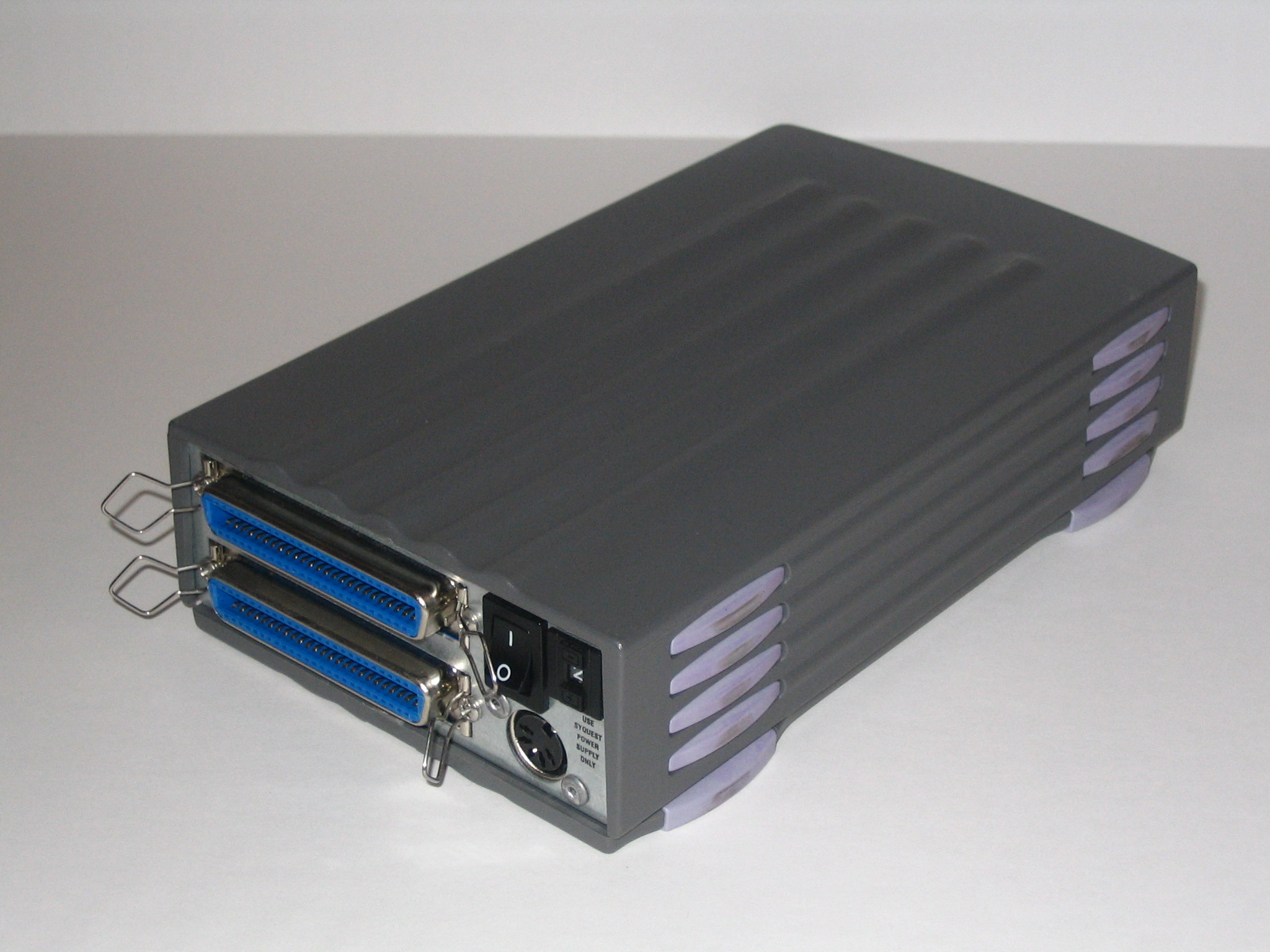 SyQuest EZ 135 Drive - External SCSI - Back Author: Ckmac97 Date: 05/07/2006